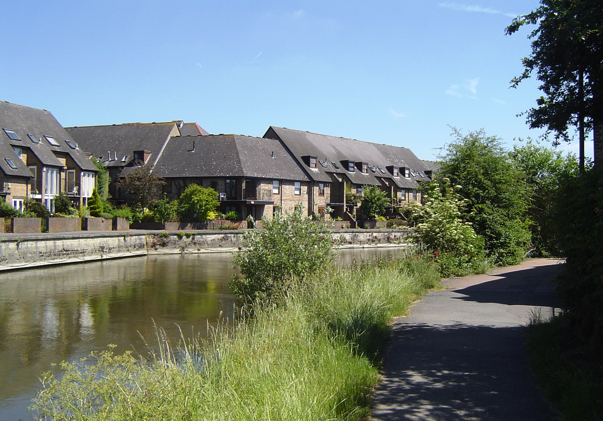 Houses on the River Thames Oxford above Folly Bridge